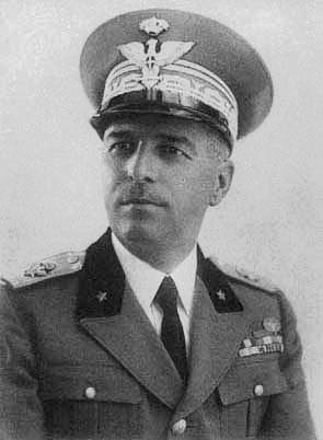 Original File on Italian wikipedia. I moved it to Commons following instructions. Image of Italian General Vittorio Ambrosio during WWII.